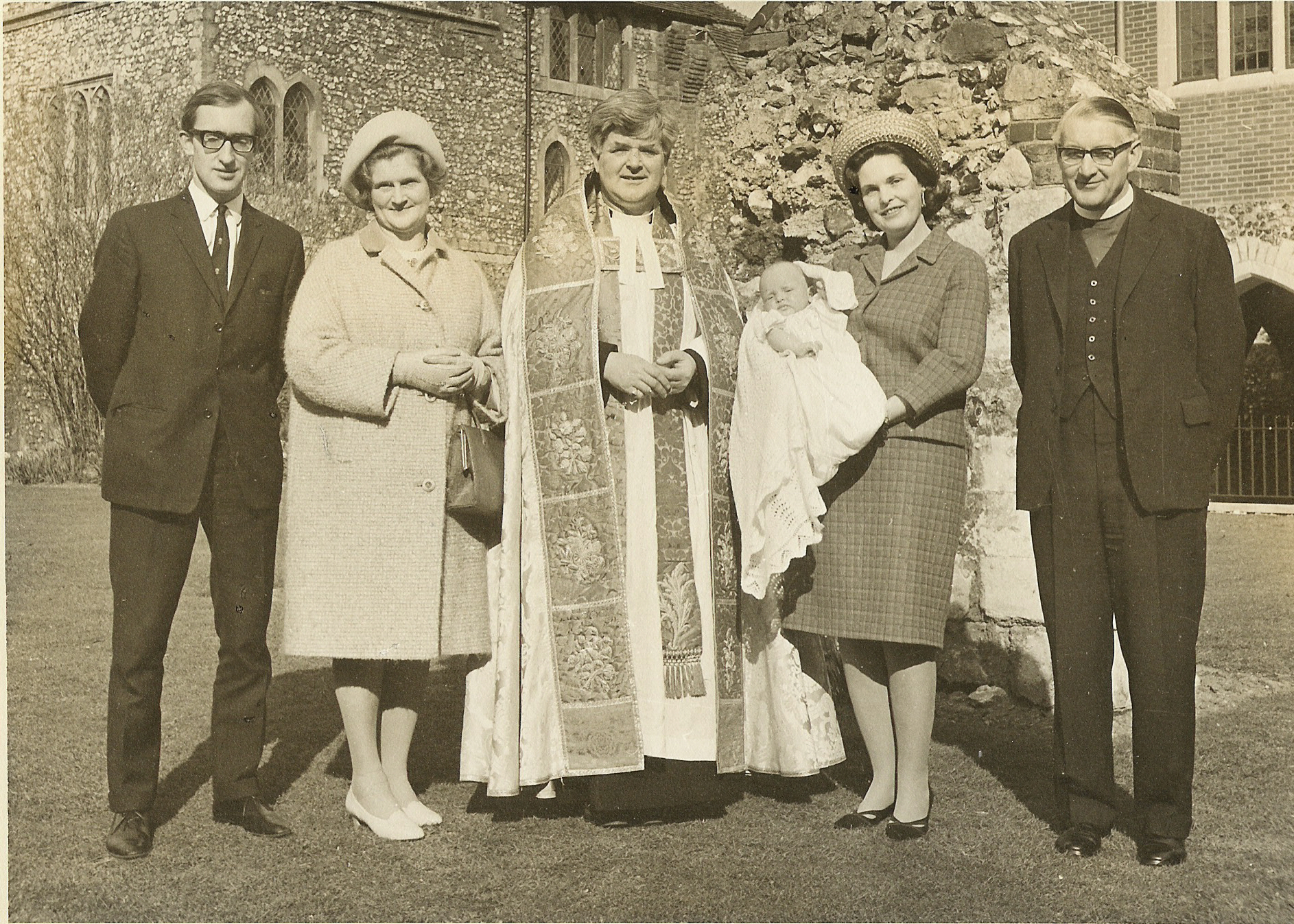 A baptism at Canterbury Cathedral on Easter Day 1968. Godparents include Tony Tremlett (bishop). The infant is Timothy L'Estrange, surrounded by parents and godparents.